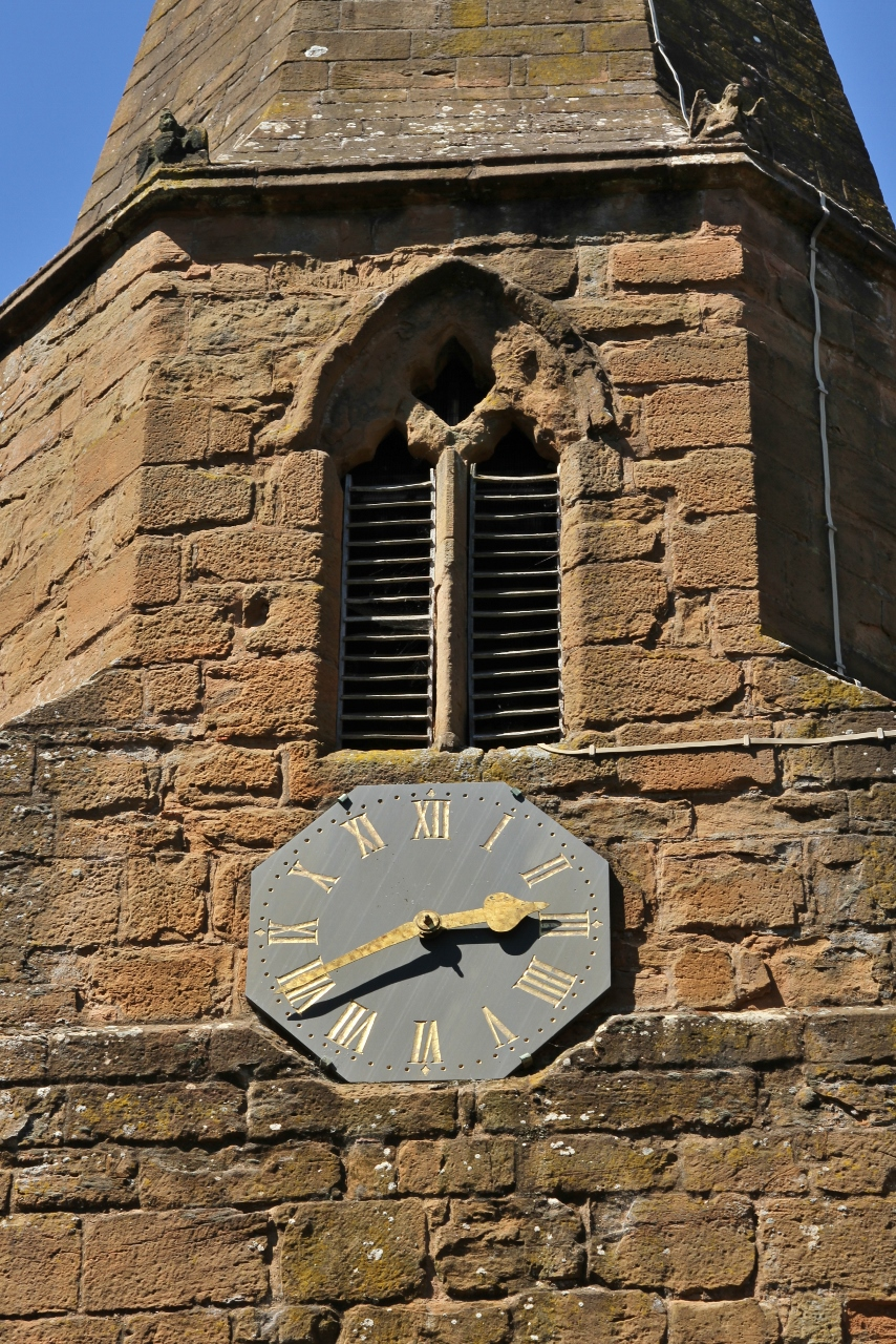 Belfry and clock dial of the parish church of St Nicholas, Kenilworth, Warwickshire, seen from the south